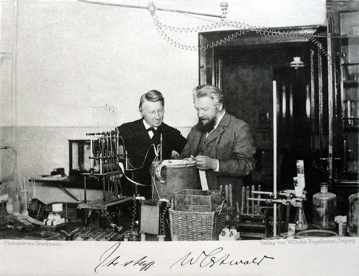 Jacobus Henricus van ’t Hoff and Wilhelm Ostwald in the laboratory